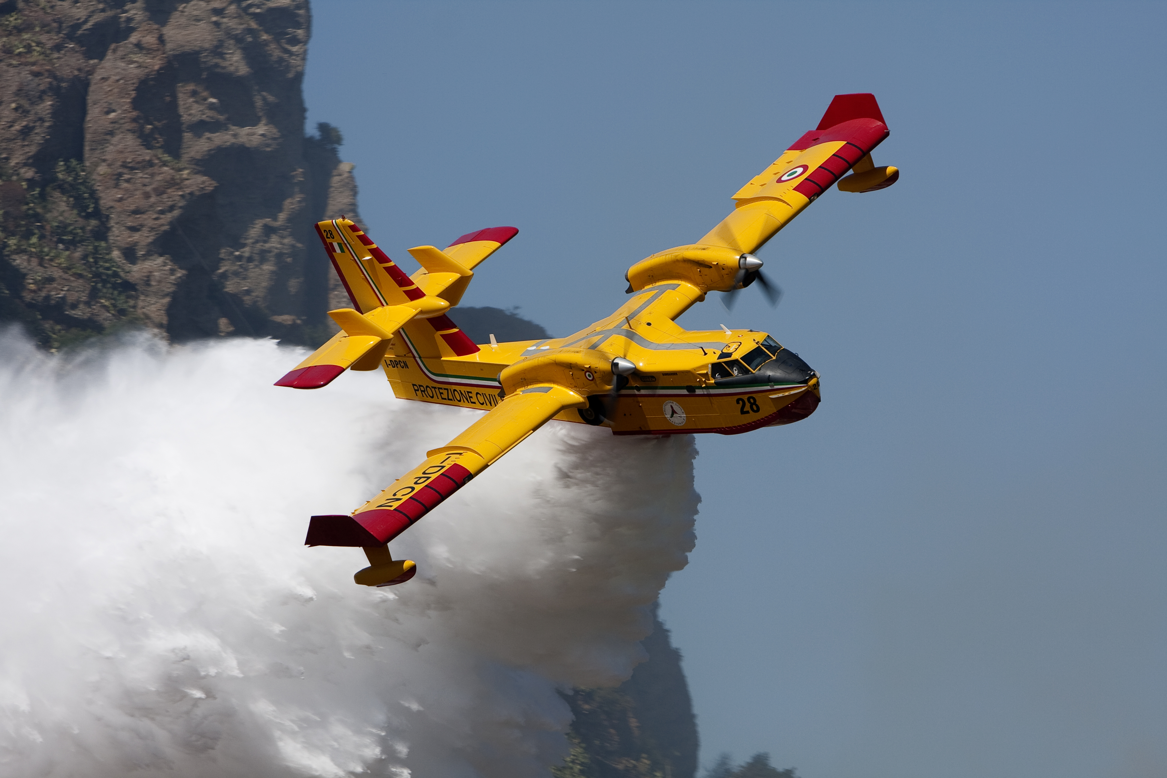 A Bombardier 415 (Italian-registered as I-DPCN) dropping water during a firefighting session.